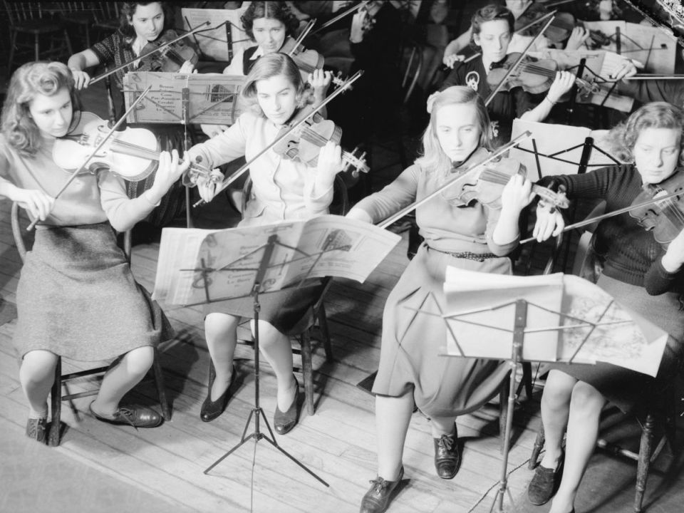 We see the musicians from "Montreal Women's Symphony Orchestra" in rehearsal. They play stringed instruments.